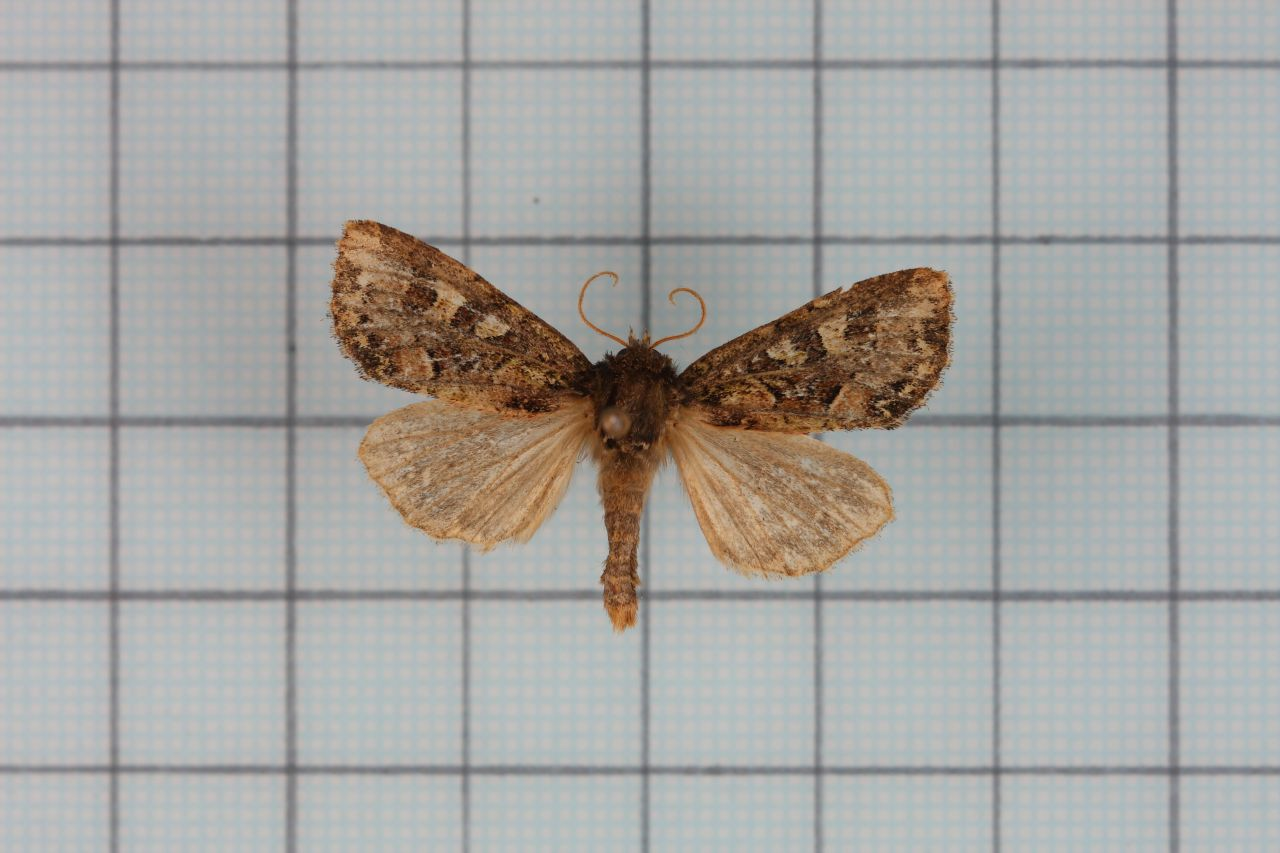 Atrachea ochrotica (Hampson) 闊翅黃綠斑夜蛾 鞍1:P.81,Pl.24-8